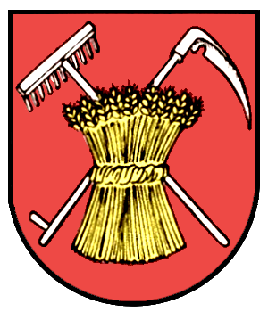 Coat of arms of Harpolingen in Bad Säckingen